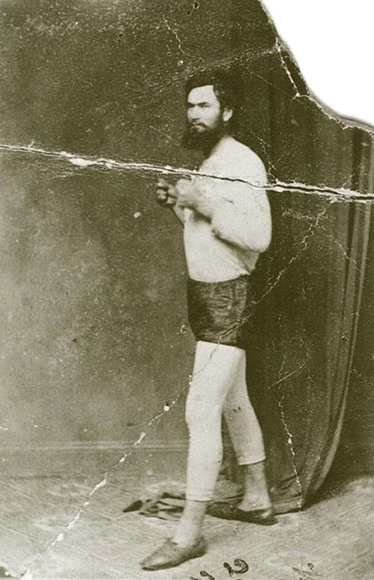 Australian bushranger Ned Kelly in a boxing pose after defeating Isaiah "Wild" Wright in a 20-round bare-knuckle boxing match at Beechworth, Victoria.